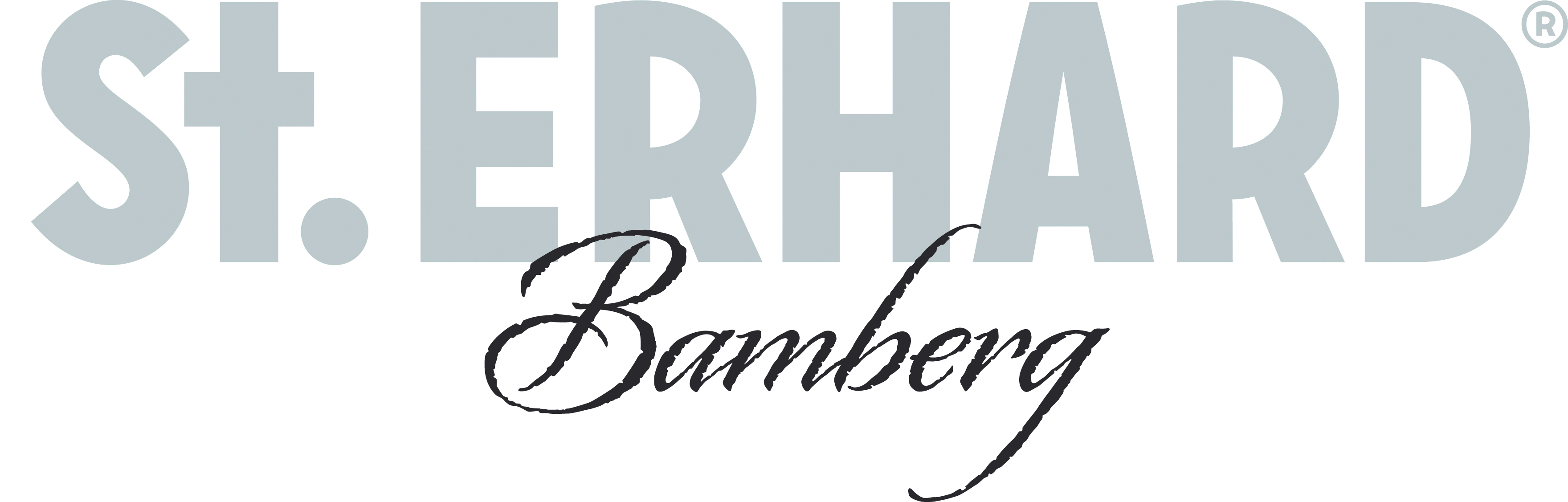 Logo of St. ERHARD beer